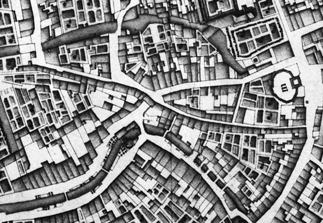 Maastricht, the Netherlands. Detail of a map showing a part of the city in 1749. The map by French military engineer Jean-Baptiste Larcher d'Aubencourt was used to built the Maquette of Maastricht (1752), now in the Musée de Beaux Arts in Lille, France. Here a section of Jekerkwartier around Klein and Lang Grachtje.